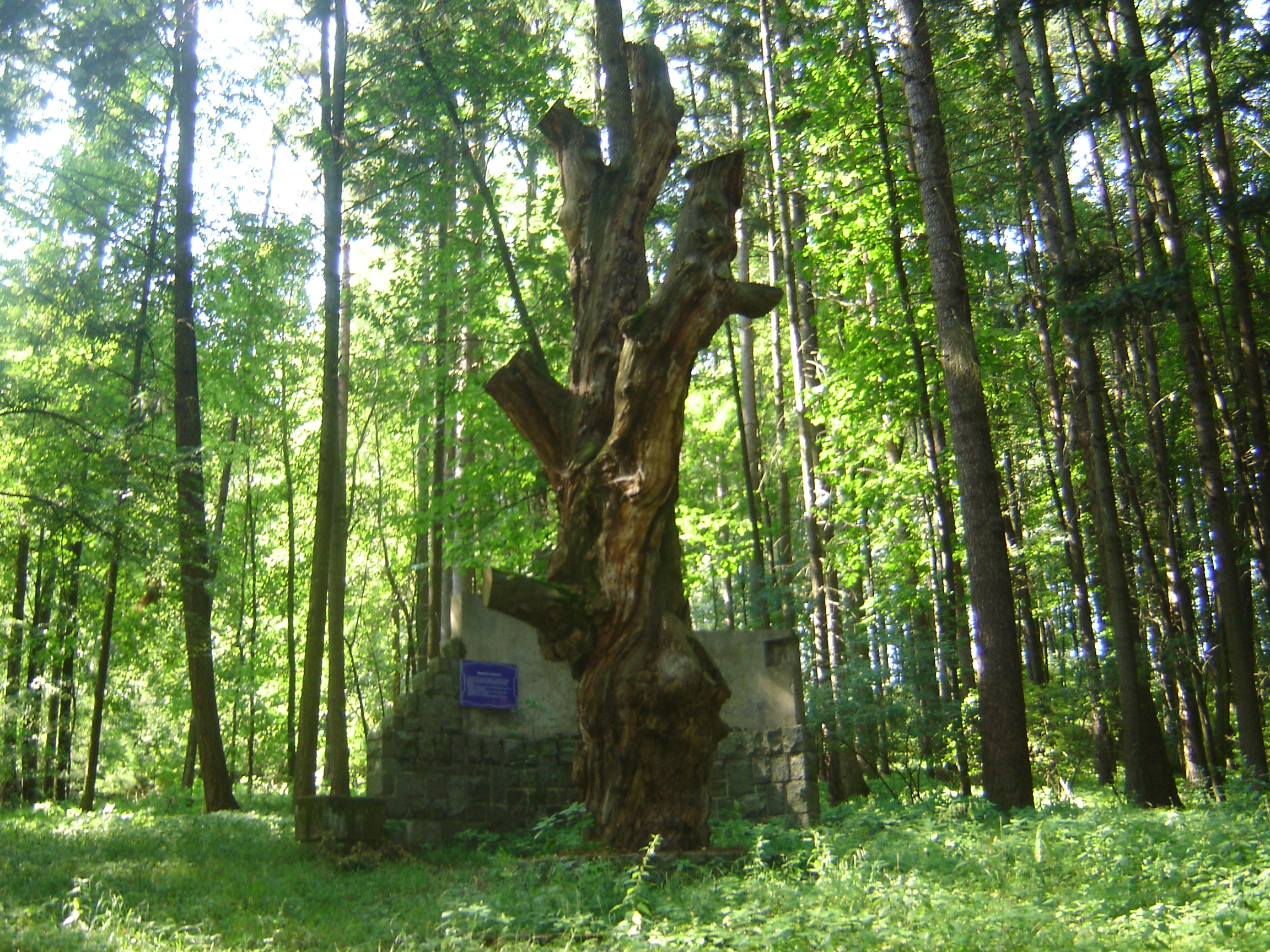 Bratrská borovice (brethren pine)